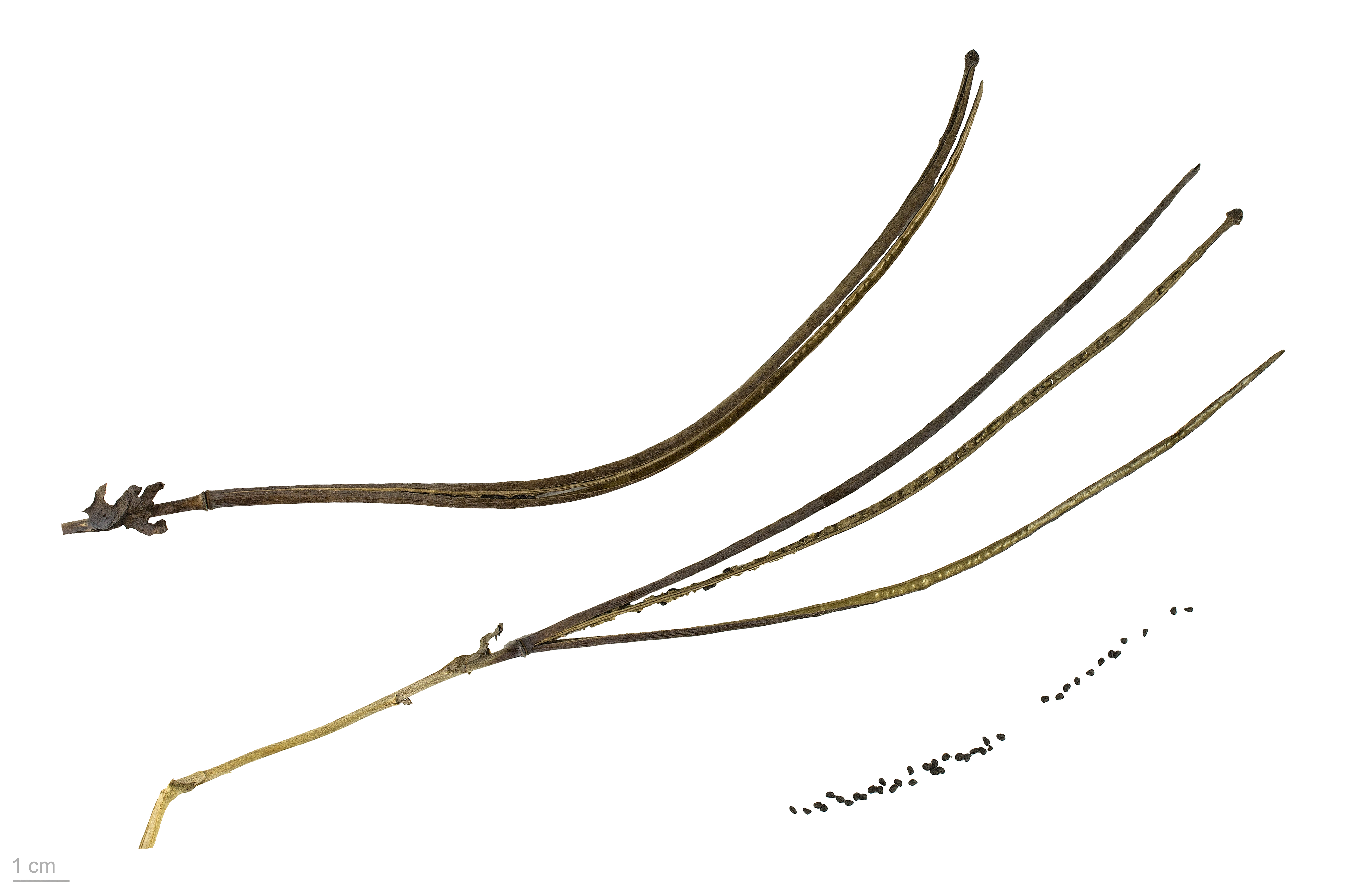 yellow hornpoppy , fruits and seeds